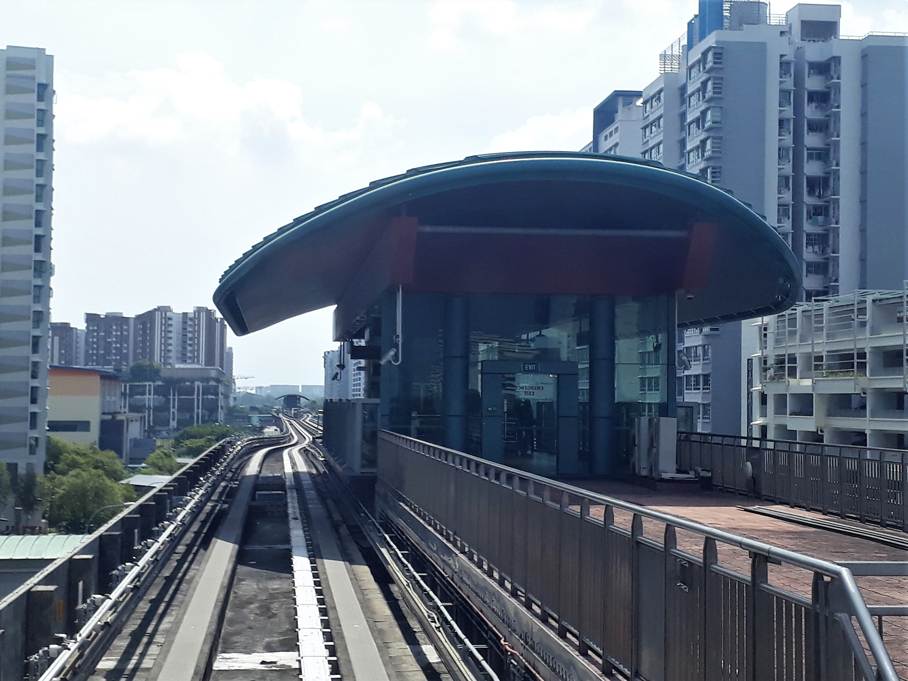 Damai LRT station